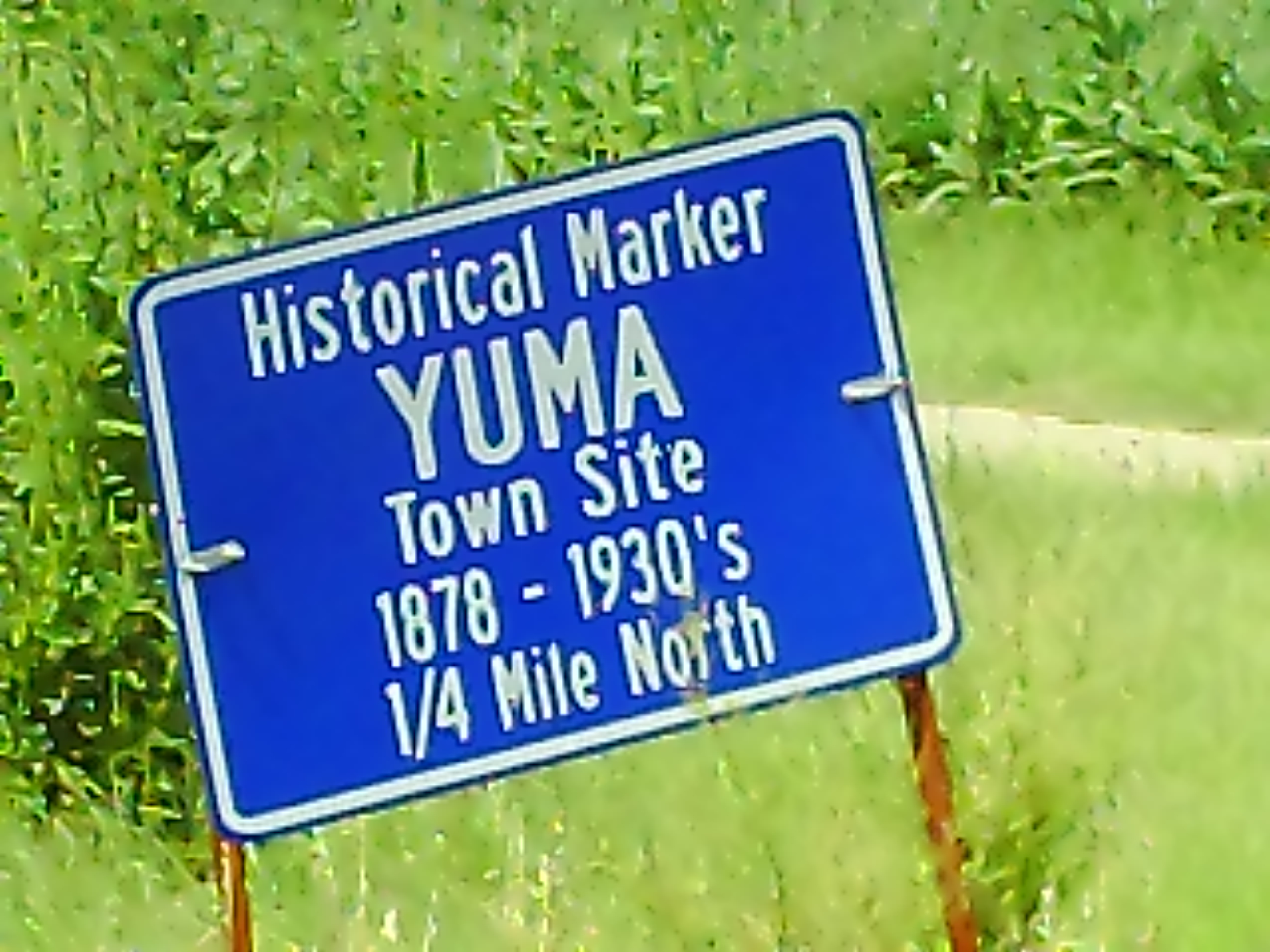 Photograph of road sign indicating nearby location of historical marker of the original town site of Yuma, Kansas.